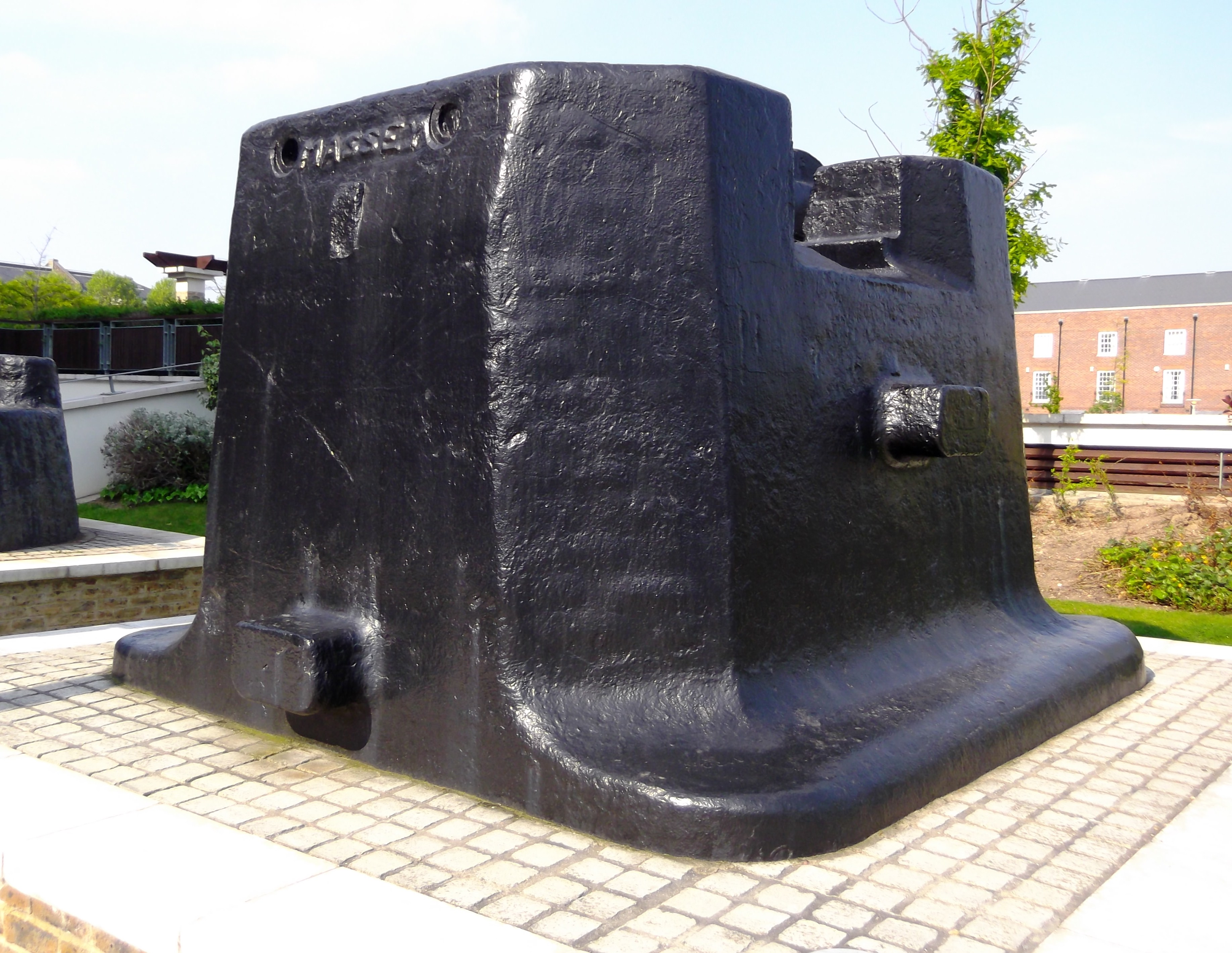 Royal Arsenal Woolwich London 323